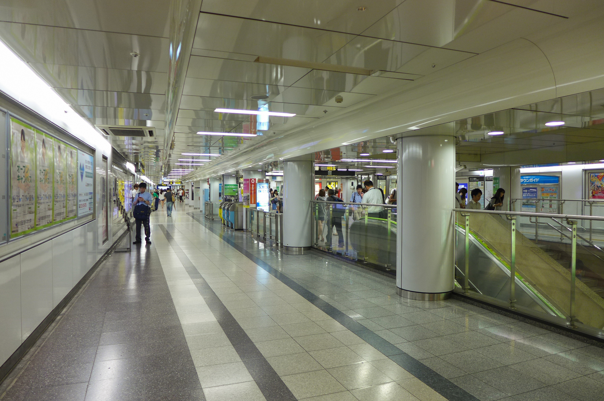 Sakae Station Concourse